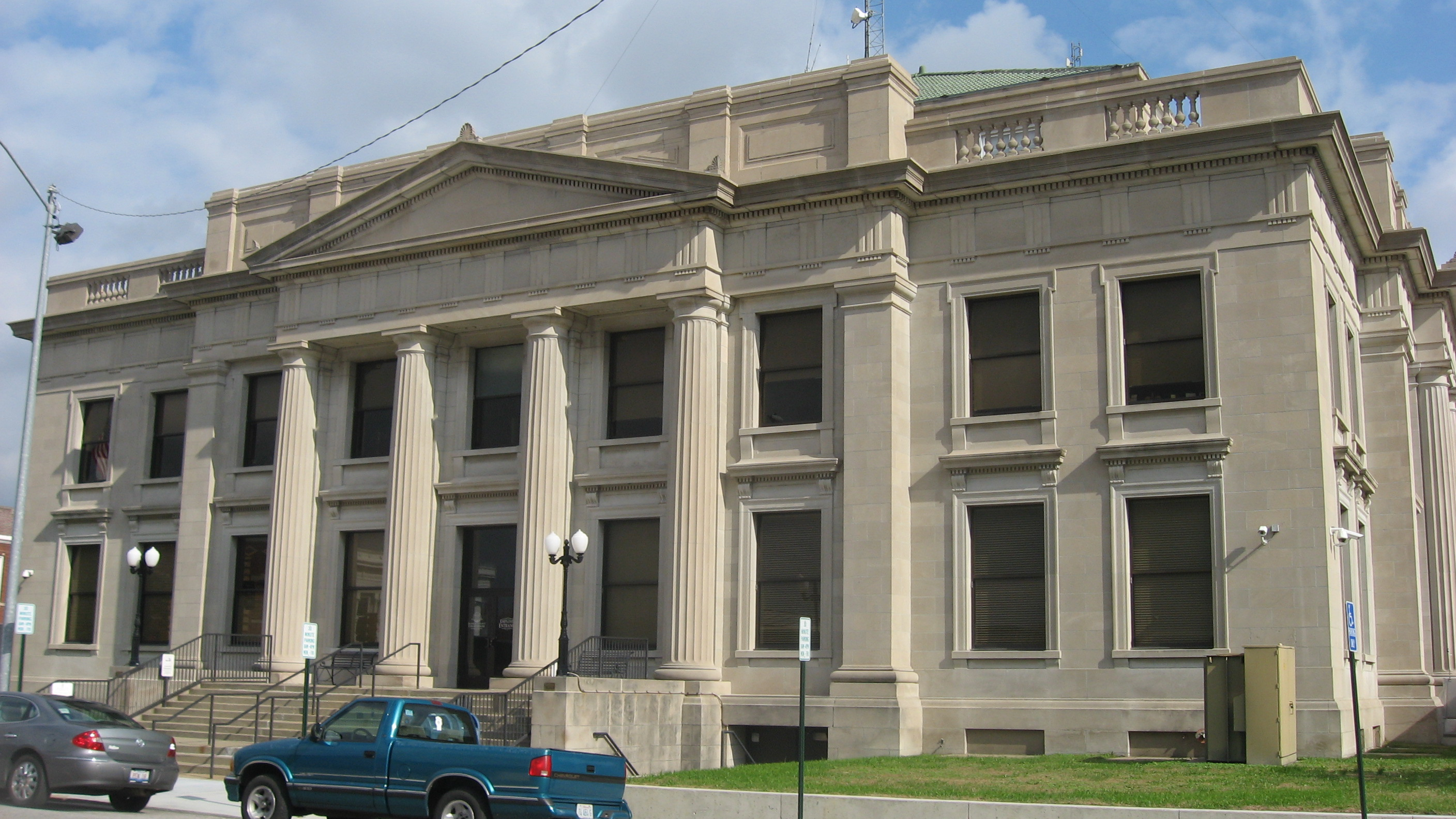 Western side of the Jackson County Courthouse, located in the block surrounded by Tenth, Walnut (Illinois Route 149), Eleventh, and Chestnut Streets in downtown Murphysboro, Illinois, United States. Built in 1926, it replaced a previous structure that was destroyed by the Tri-State Tornado one year before.